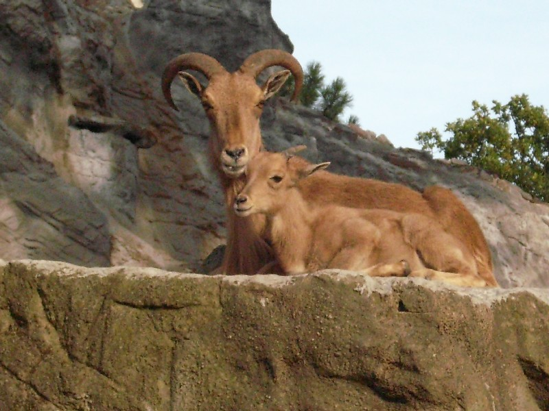 Barbary Sheep (female and young doe)